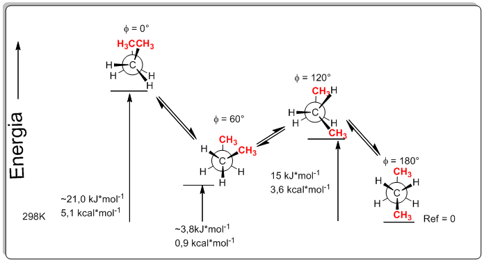 Diagrama de energia pra molecula de butano